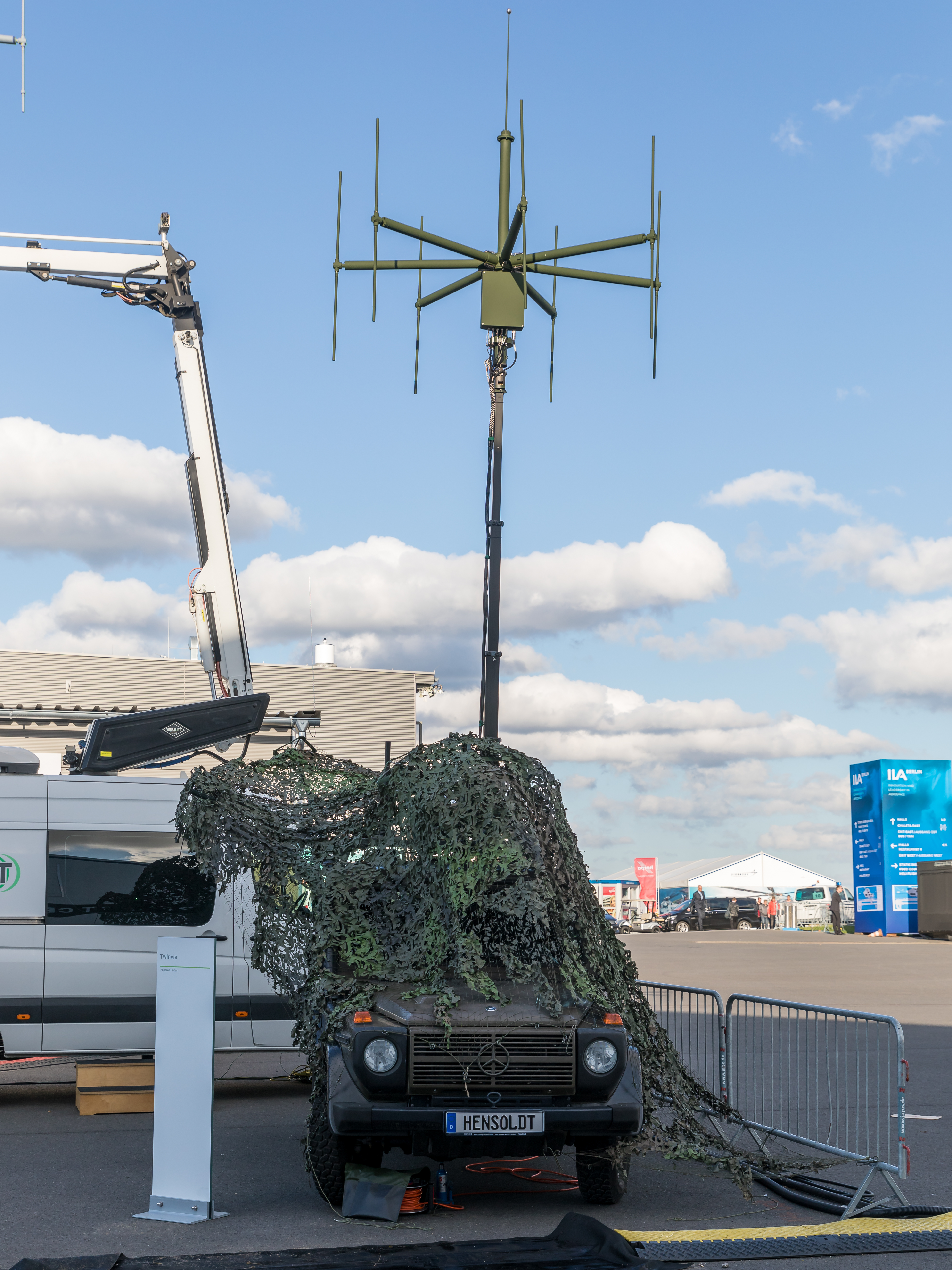 Hensoldt Twinvis Passivradar montiert auf einem Wolf, ILA 2018